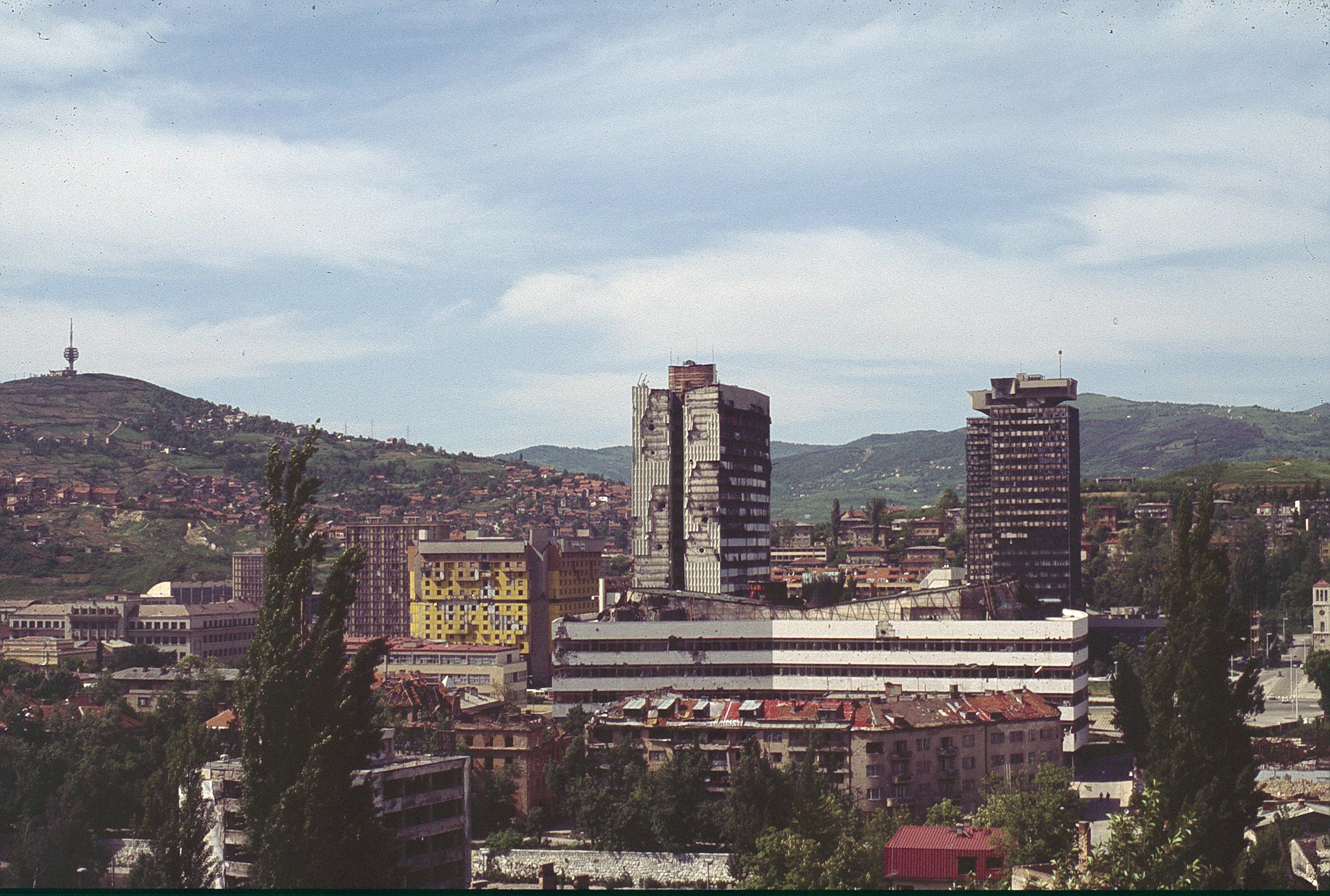 Unis Towers in May1996